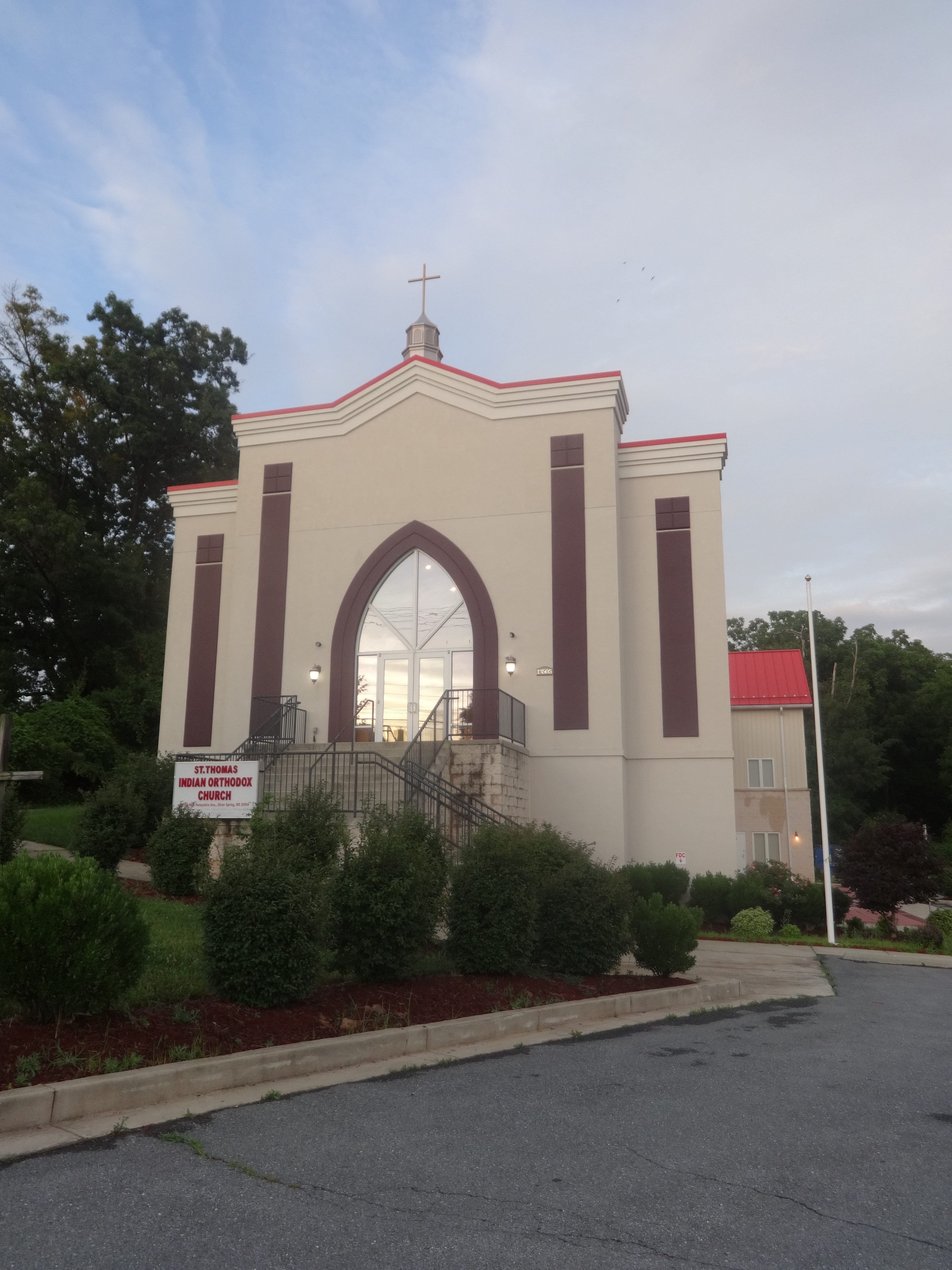 St. Thomas Indian Orthodox Church, Silver Spring, Montgomery County, Maryland.